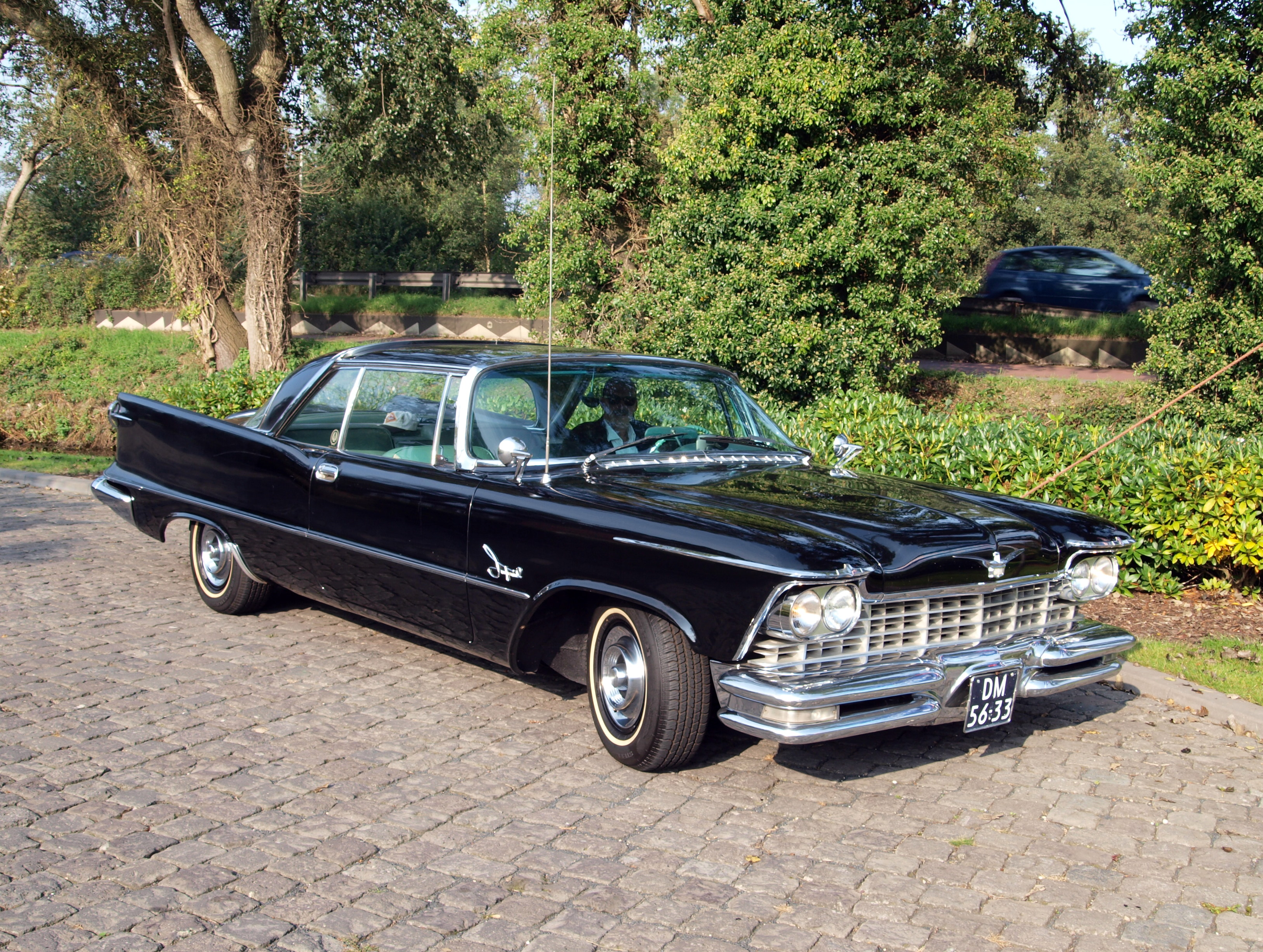 Photographed at the premises of the Louwman museum, The Hague, The Netherlands. OLYMPUS DIGITAL CAMERA